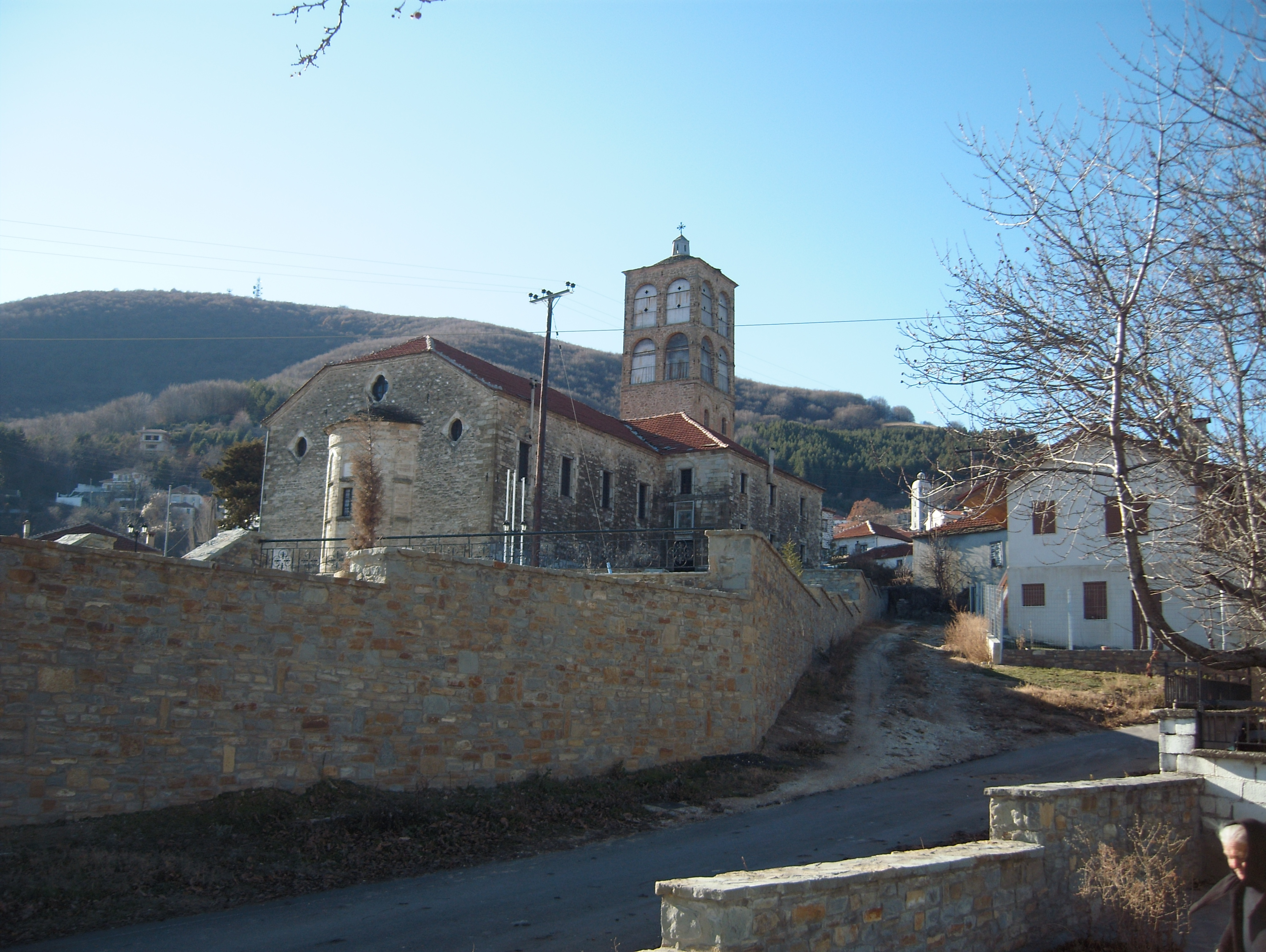 Klisoura